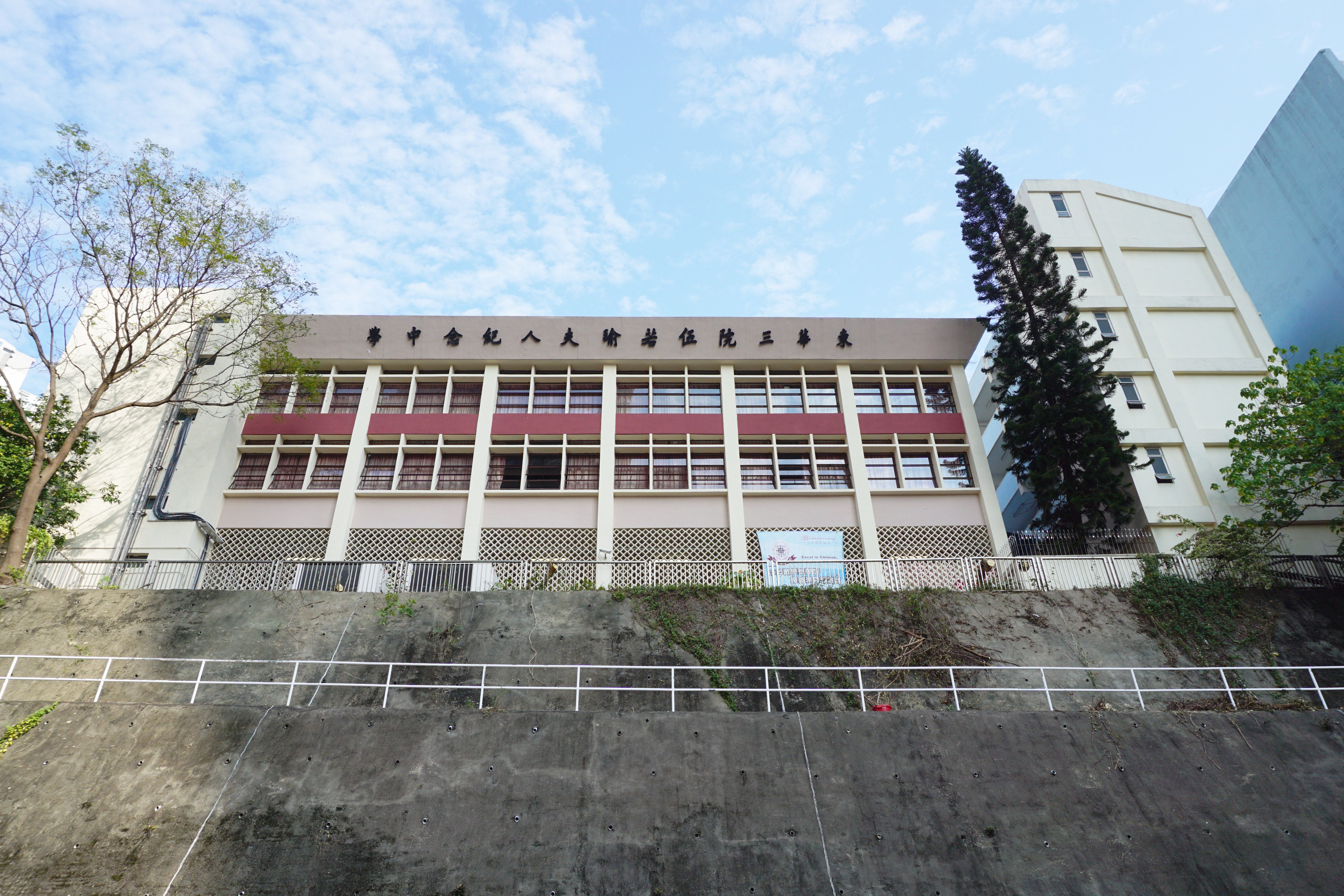 TWGHs Mrs Wu York Yu Memorial College in Shek Yam, Hong Kong.